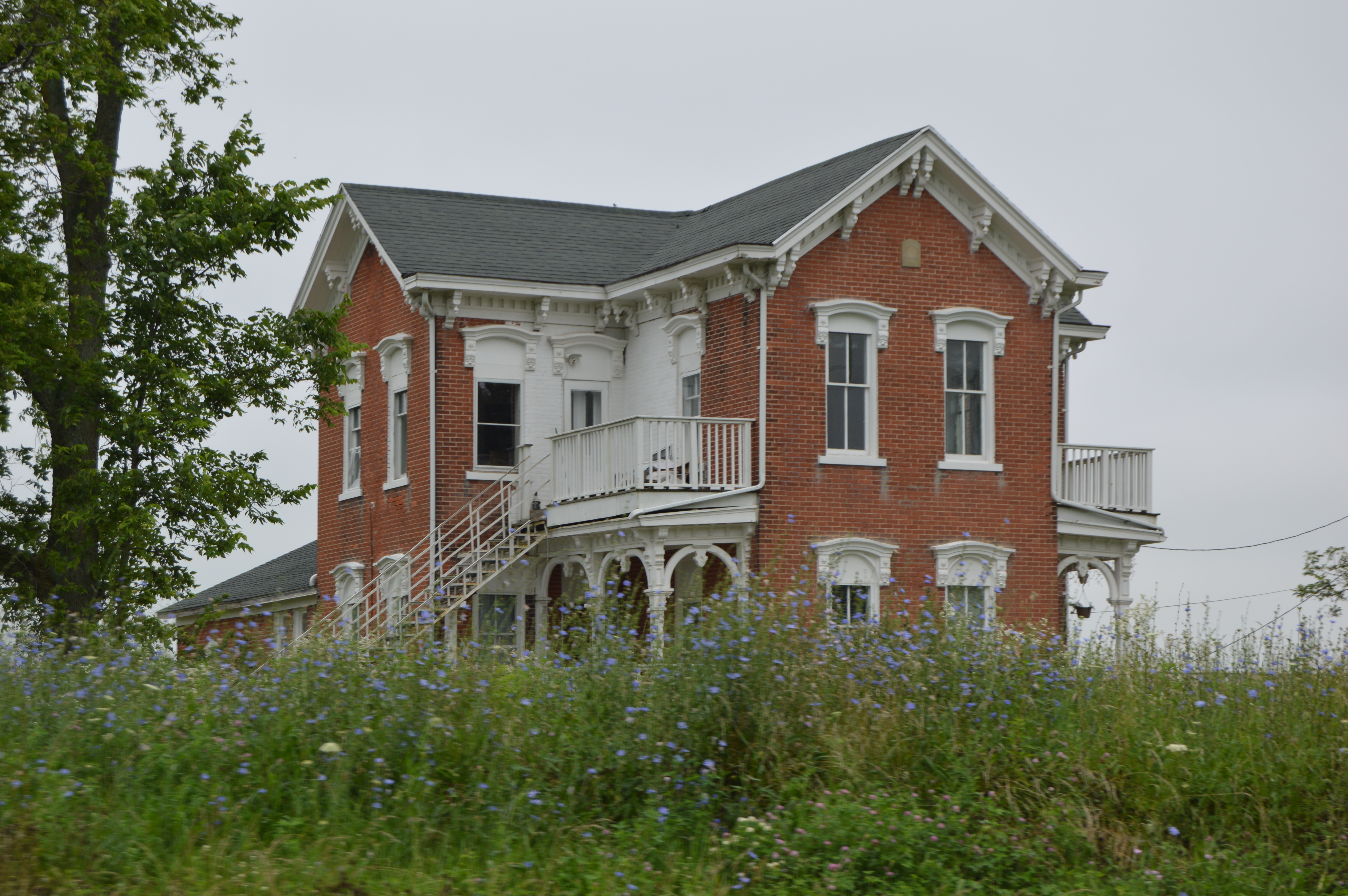 Roadside view of the house located at 780 N. Napoleon Road south of Lafayette in Jackson Township, Allen County, Ohio, United States. It was built in 1875.